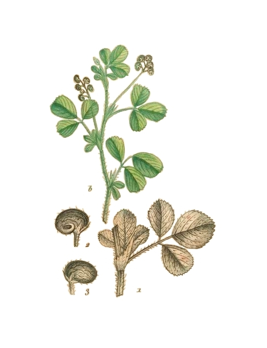 Illustrations of Medicago lupulina.